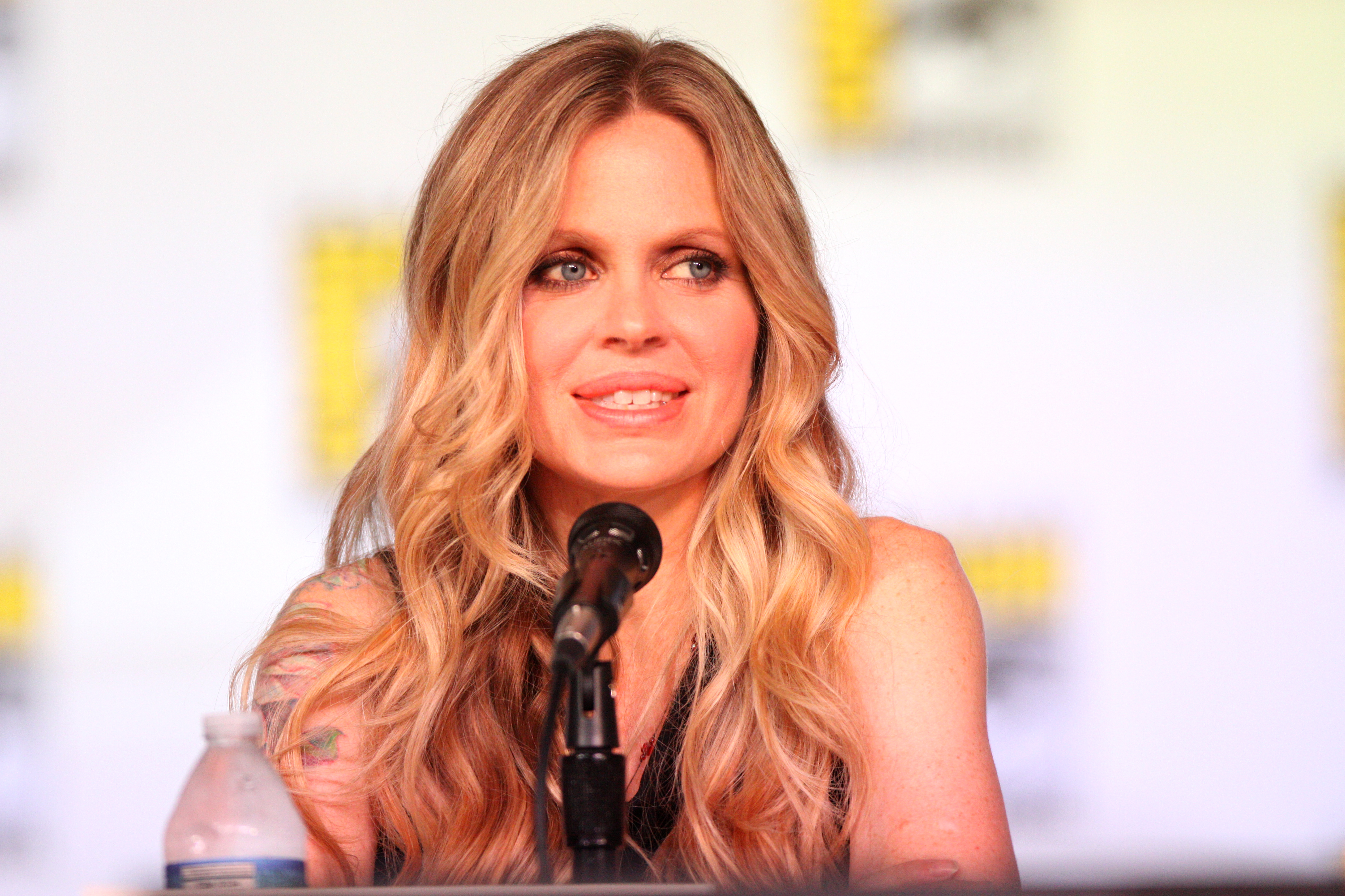 Kristin Bauer van Straten speaking at the 2012 San Diego Comic-Con International in San Diego, California.